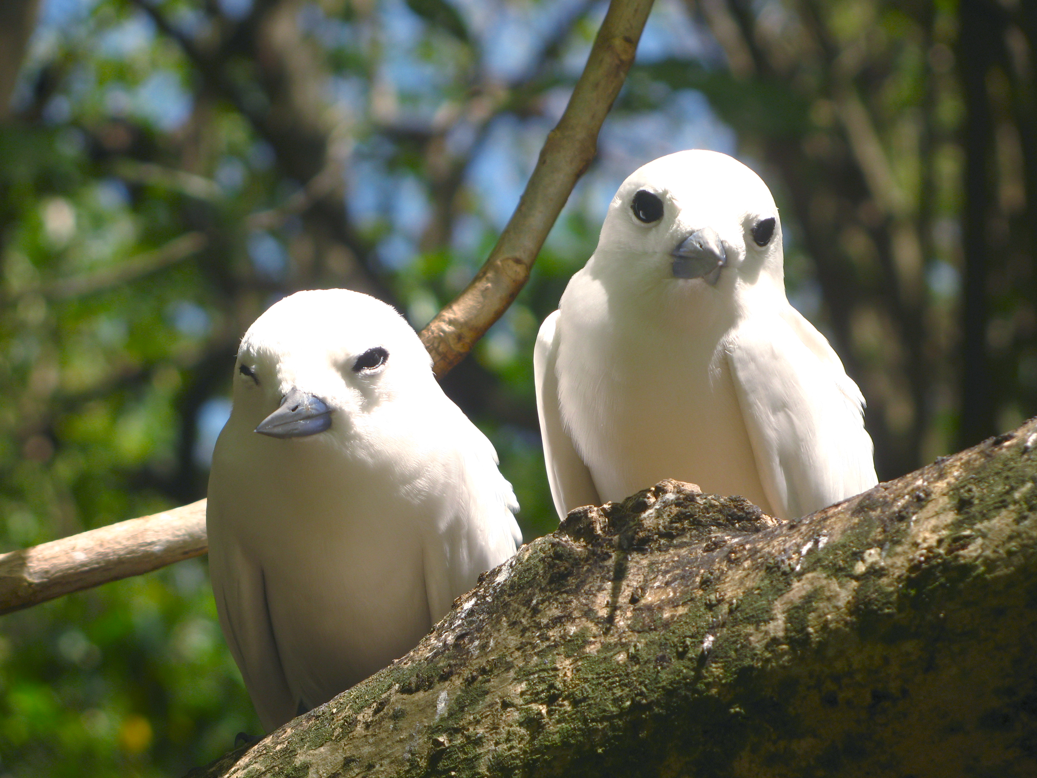 White tern on Cousin island, Seychelles